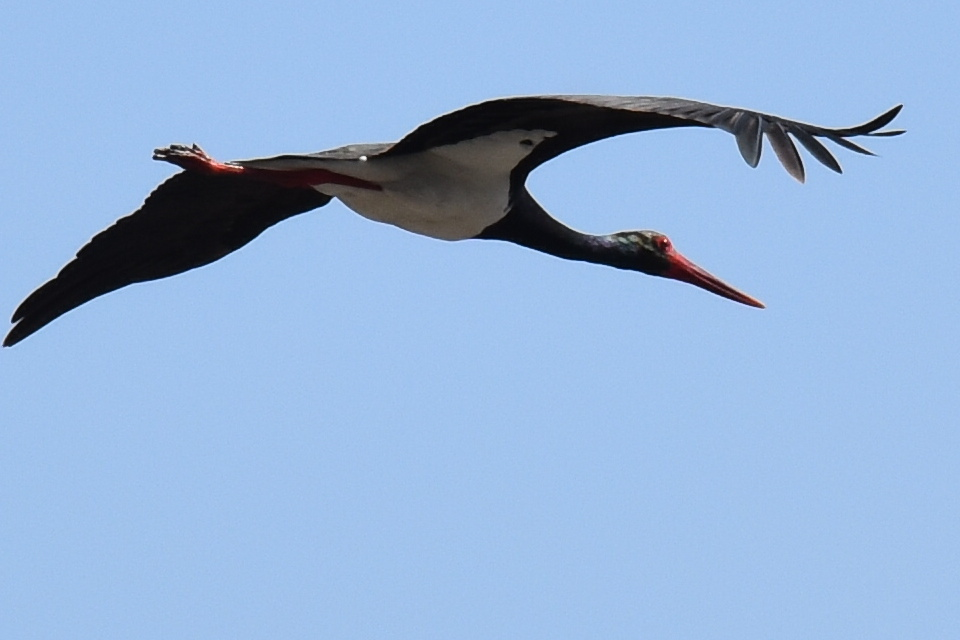 This is a photography of Natura 2000 protected area with ID GR4110004